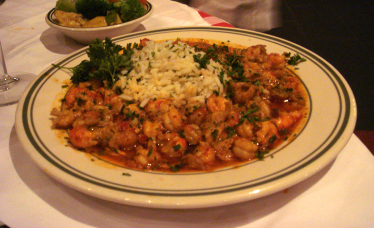 A traditional Creole/Cajun cuisine crawfish étouffée from a famous Cajun restaurant (Bon Ton Cafe) in New Orleans, Louisiana.